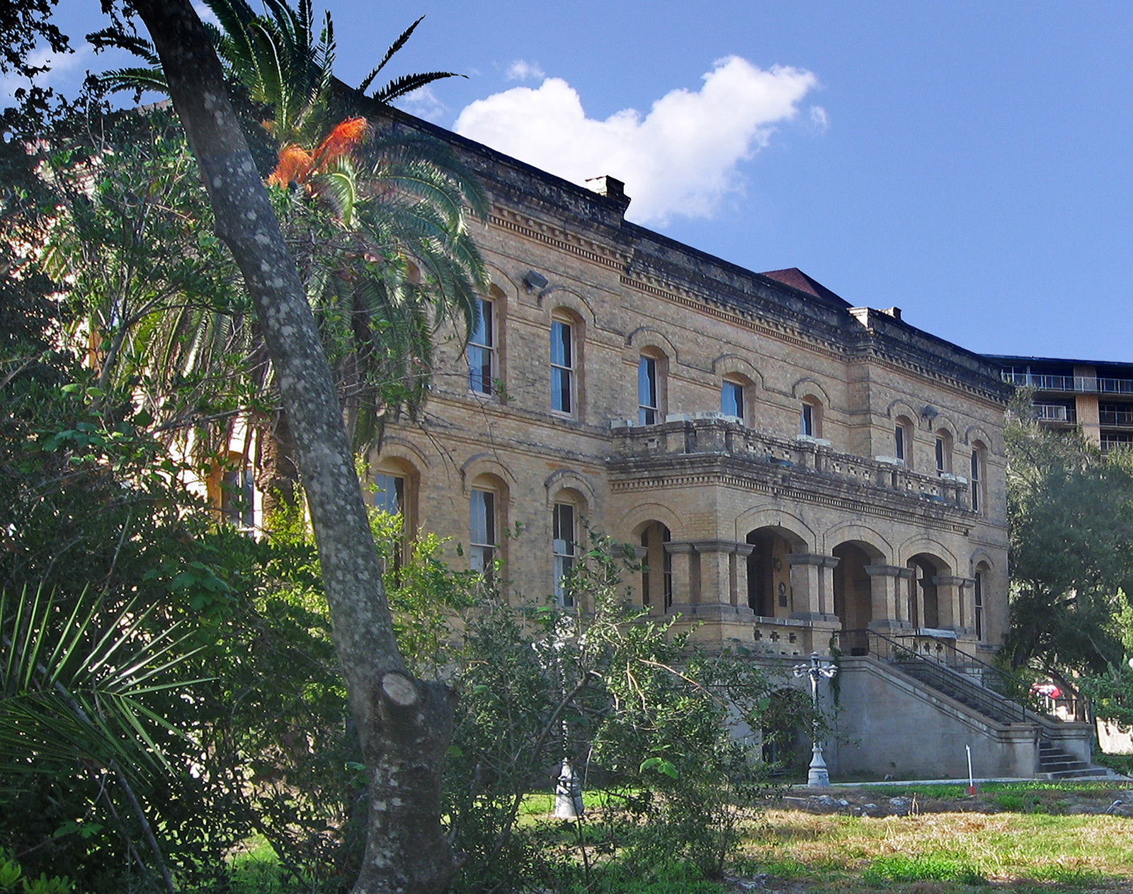 Galveston Children's Home. Founded in 1878 by George Dealey (1829-1891), the Galveston Children's Home moved to this location in 1880. Henry Rosenberg gave money to construct a massive Gothic revival building here in 1894-95. It was destroyed by the storm of 1900. Newspaper publisher William Randolph Hearst hosted a charity bazaar at the Waldorf-Astoria Hotel in New York City to raise funds for rebuilding. This brick structure was completed in 1902. The building is now (2019) The Bryan Museum